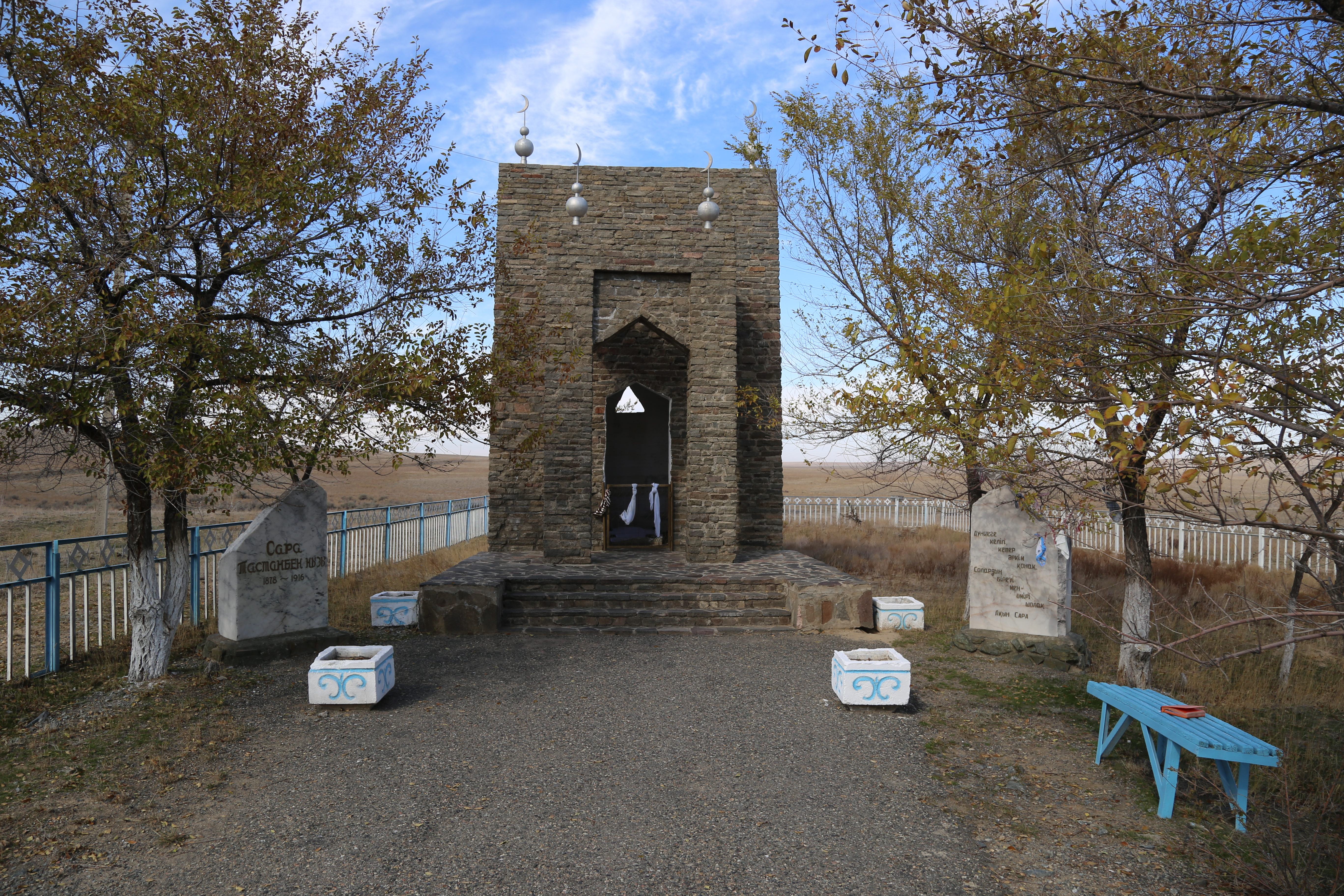 Sara Tastanbekqyzy Mausoleum